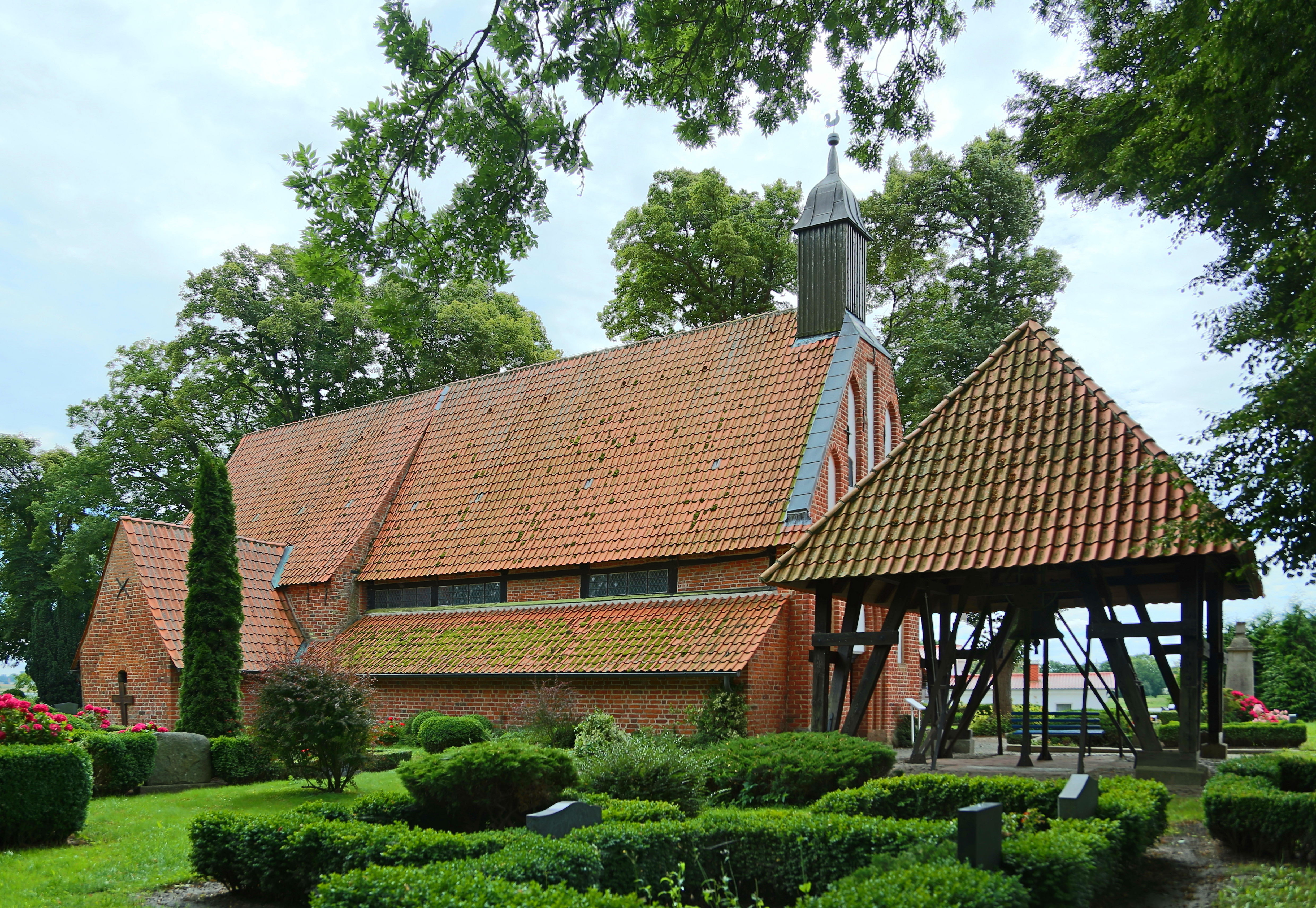 The Protestant Saint Mary Church (St.-Marien-Kirche) in Ummanz-Waase, Landkreis Vorpommern-Rügen, Mecklenburg-Vorpommern, Germany. The building is a listed cultural heritage monument.